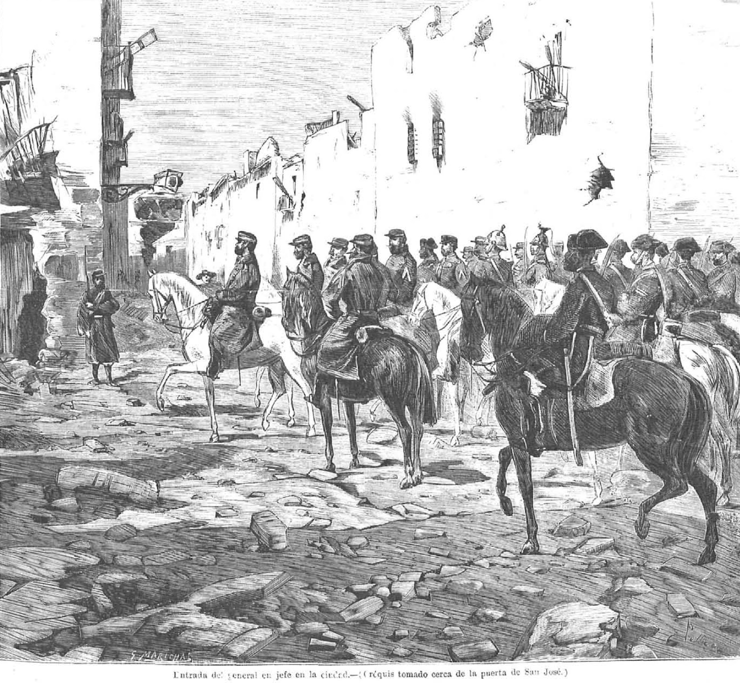 Cartagena after the siege — Entrance of the general in chief in the city.— (Sketch taken near the gate of San José.)